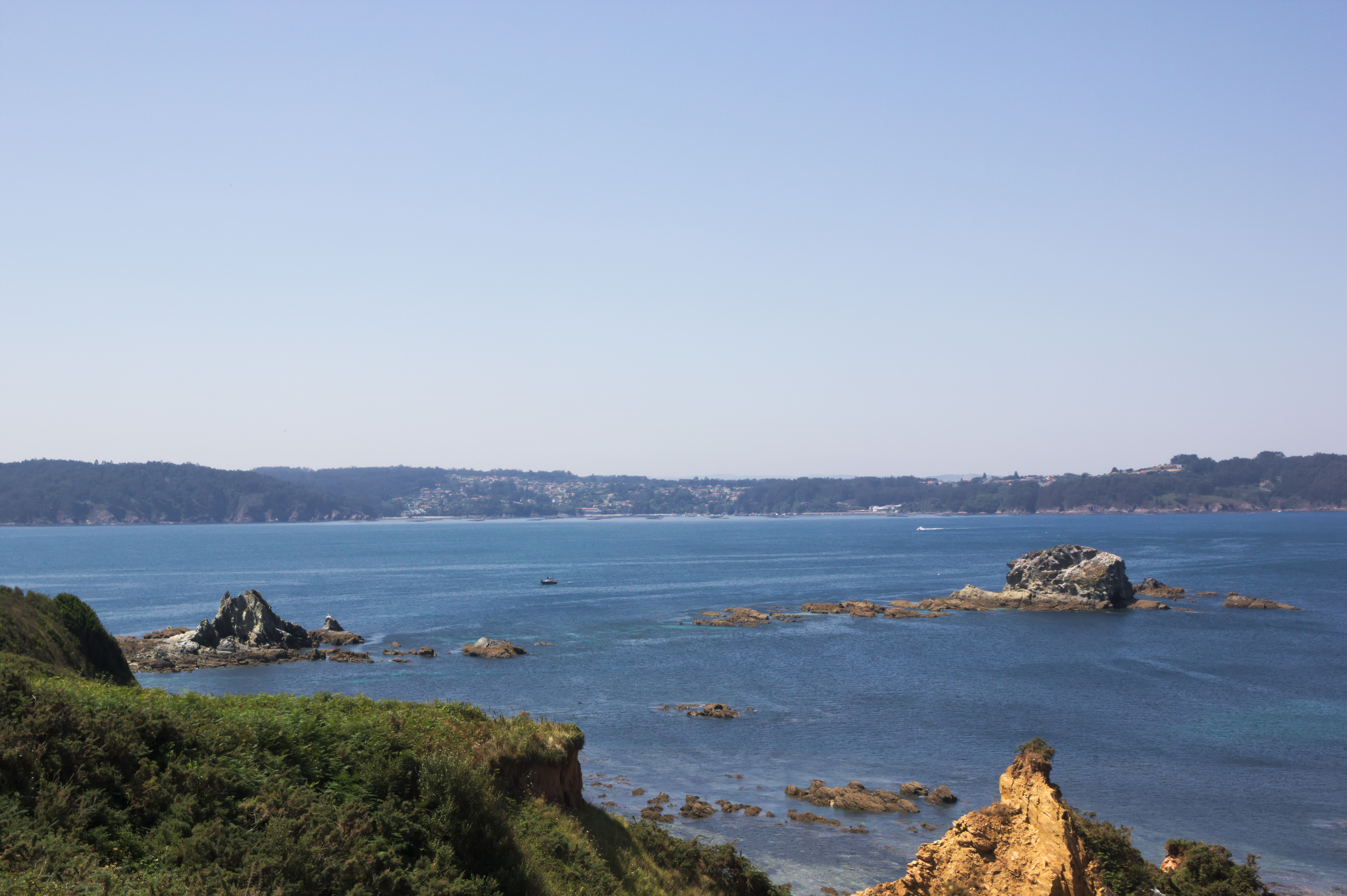 Mirandas islets, in Ares, Galicia, Spain.